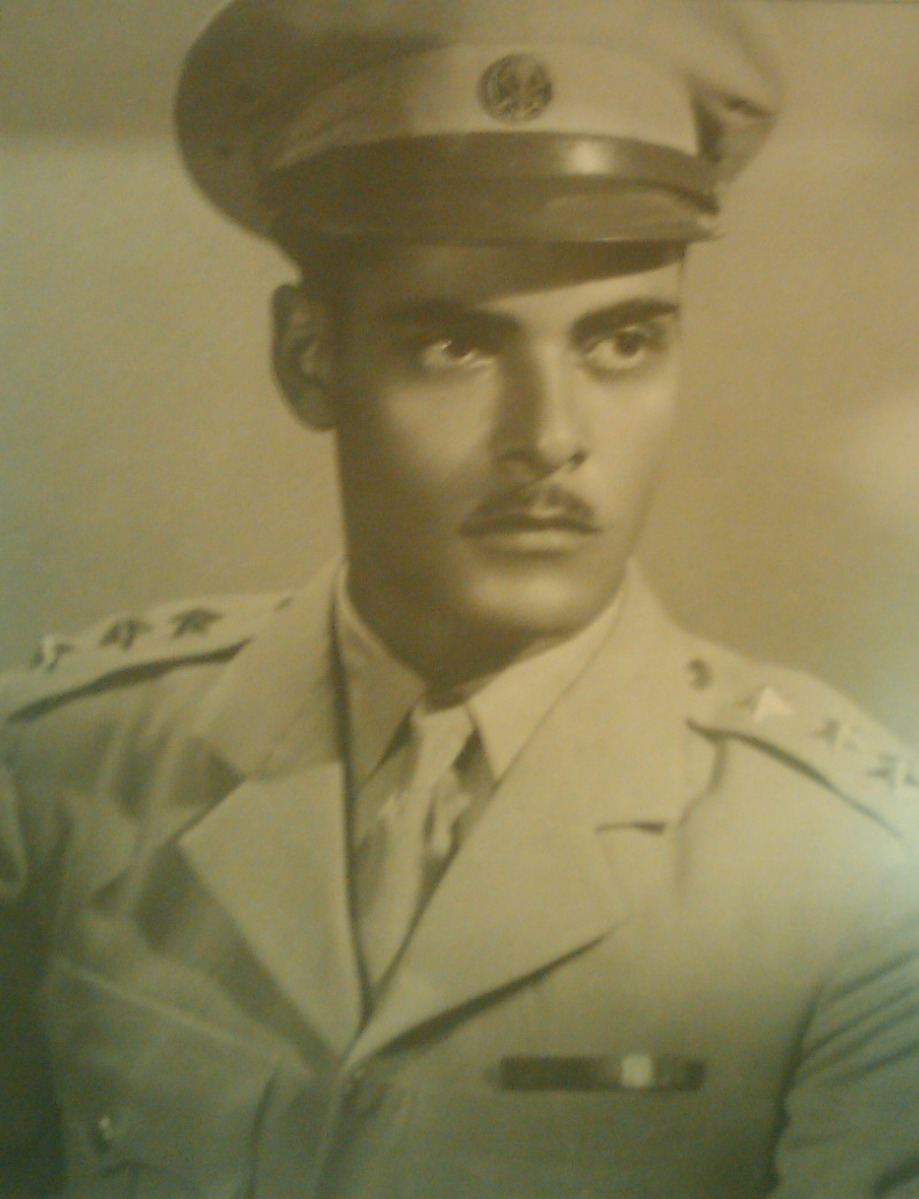 Picture of Saleh Al-Nesseyan